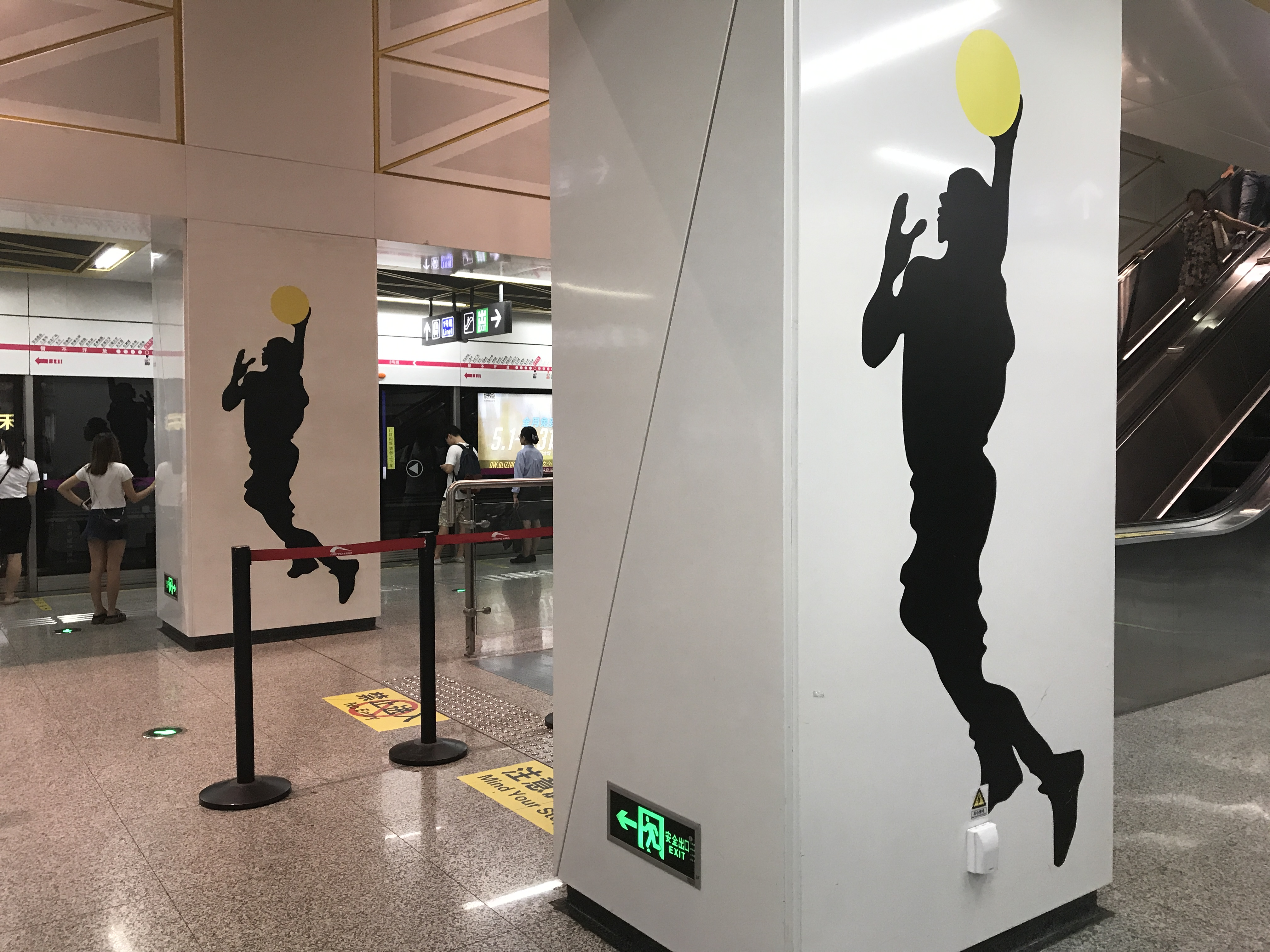 Platform of Line 3 in Sichuan Gymnasium Station, Chengdu Metro